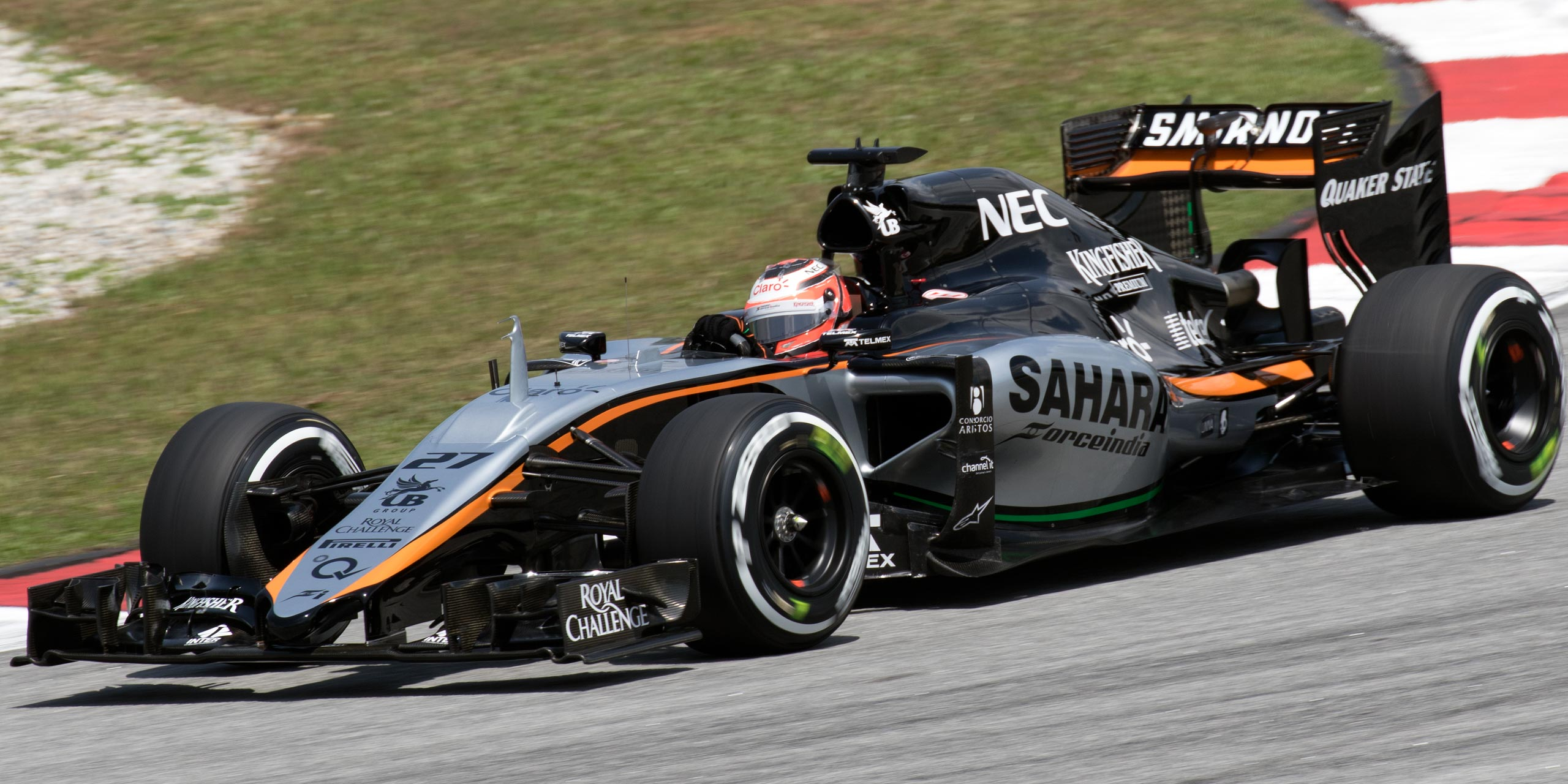 Formula One 2015 Rd.2 Malaysian GP: Nico Hülkenberg (Force India)